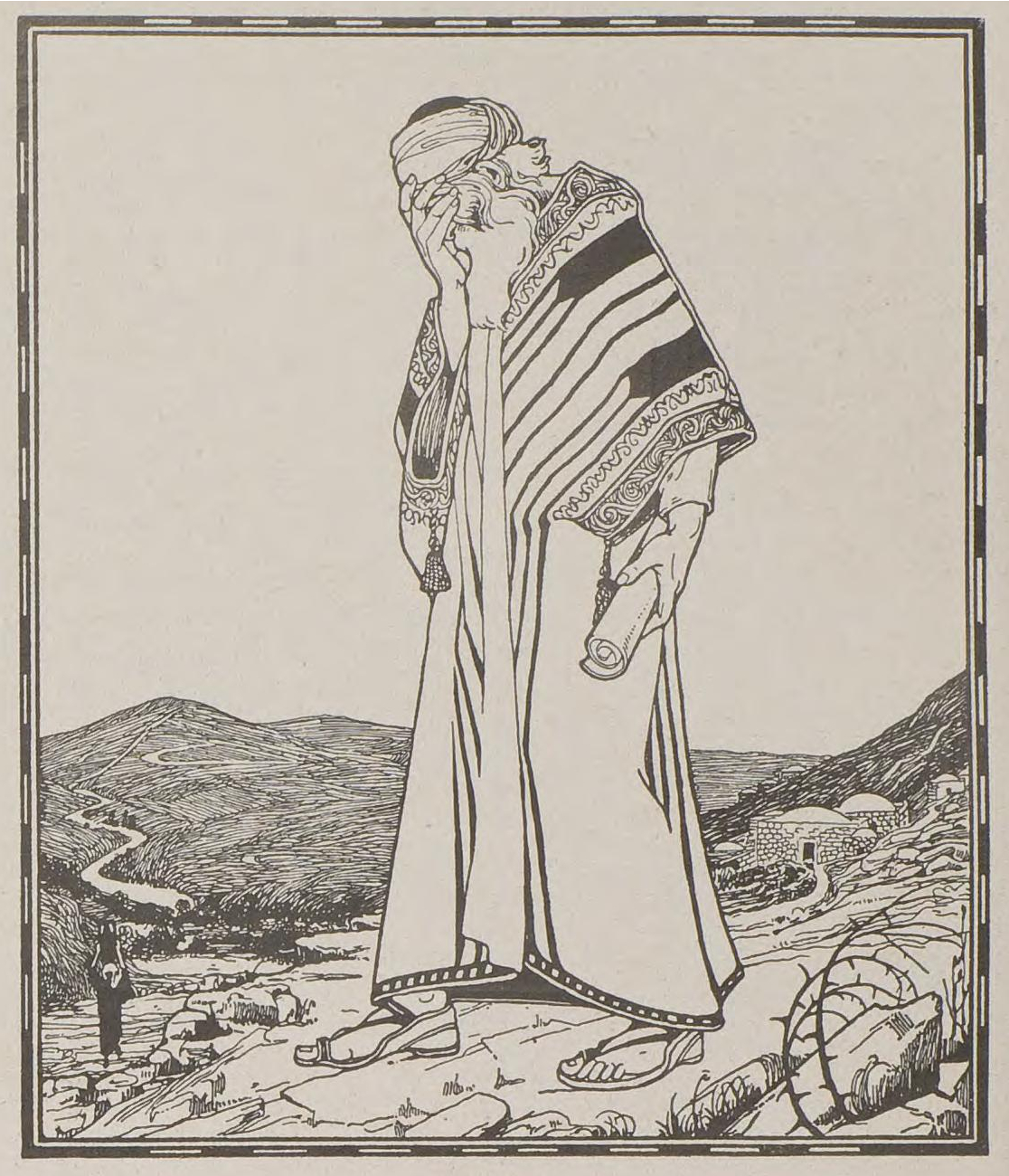 Psalm 55.